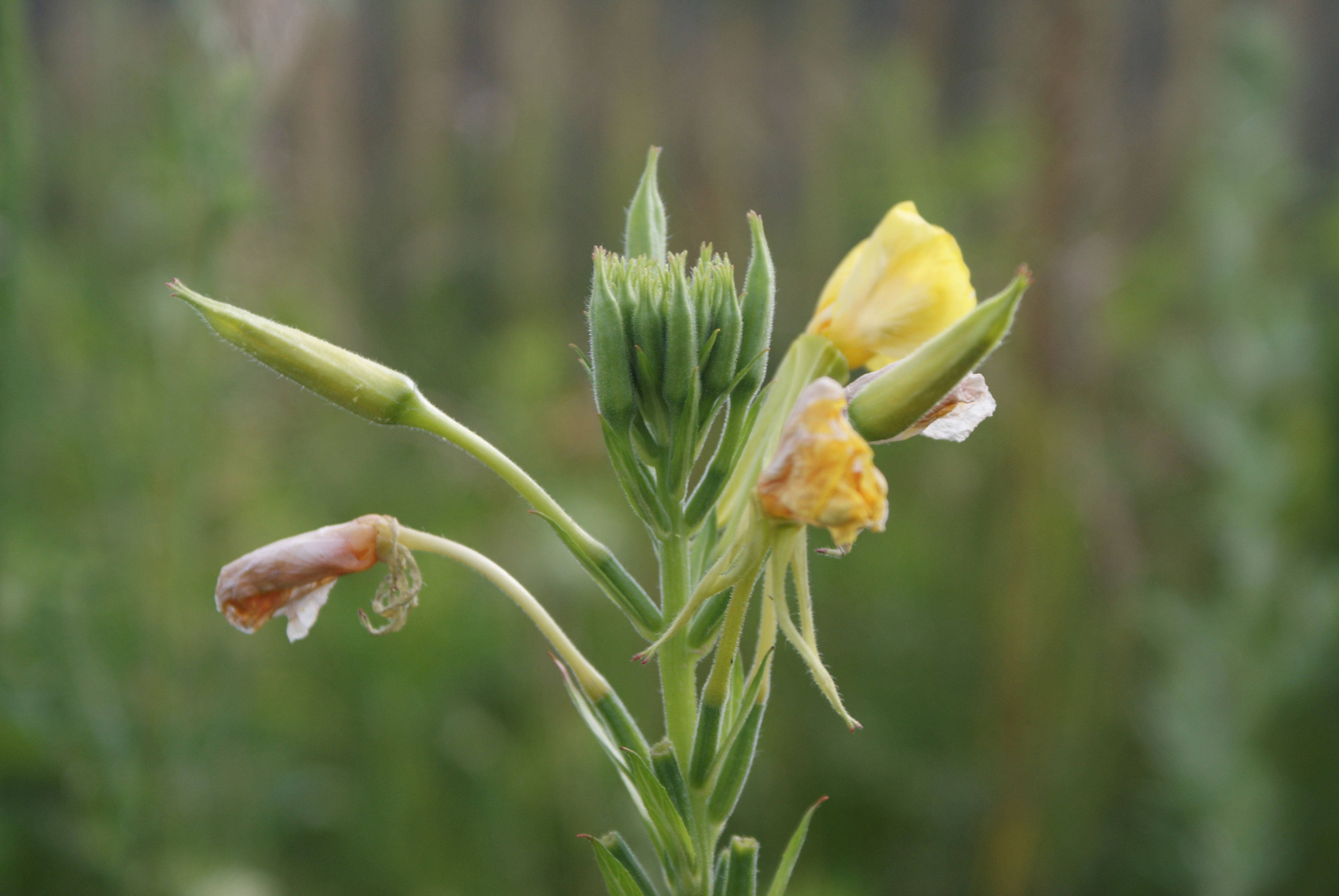 Oenothera biennis (Belarus)